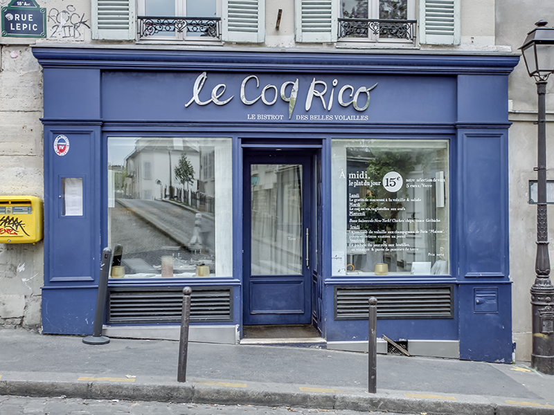 Antoine Westermann's Restorant Le Coq Rico